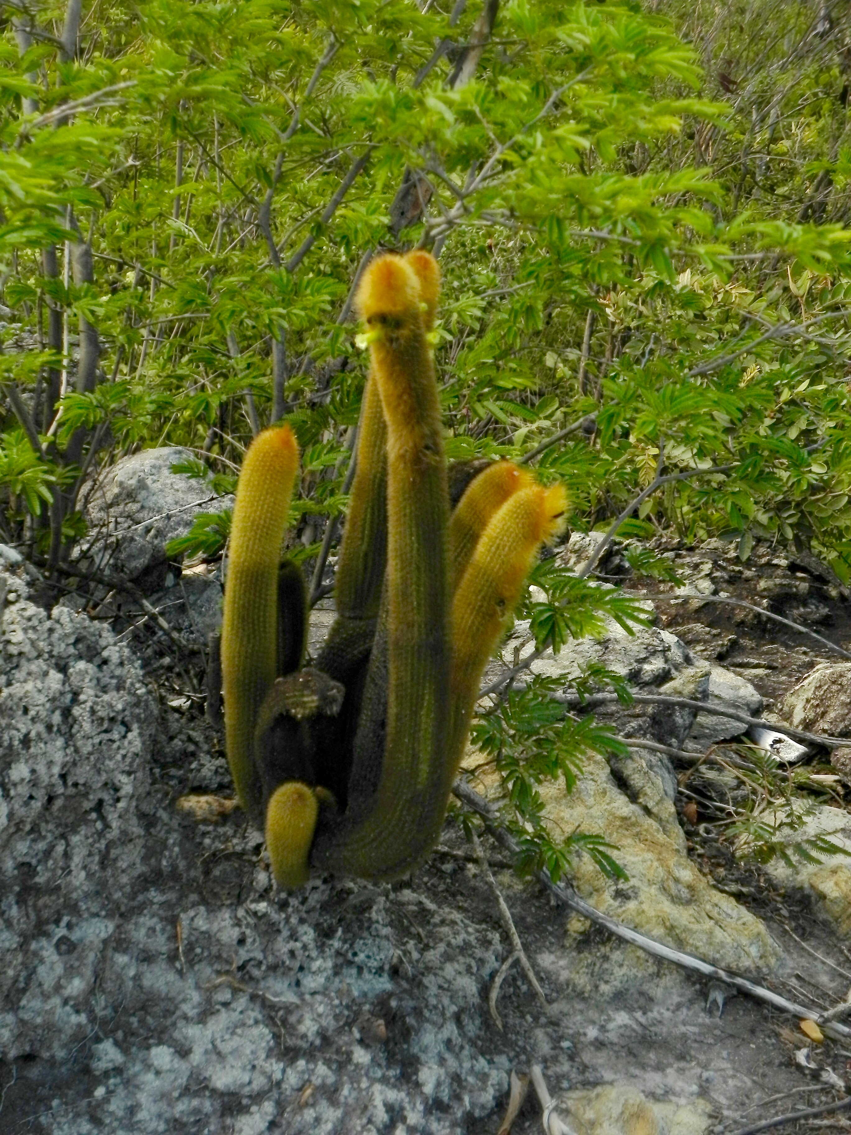 type locality, Minas Gerais, Brasil